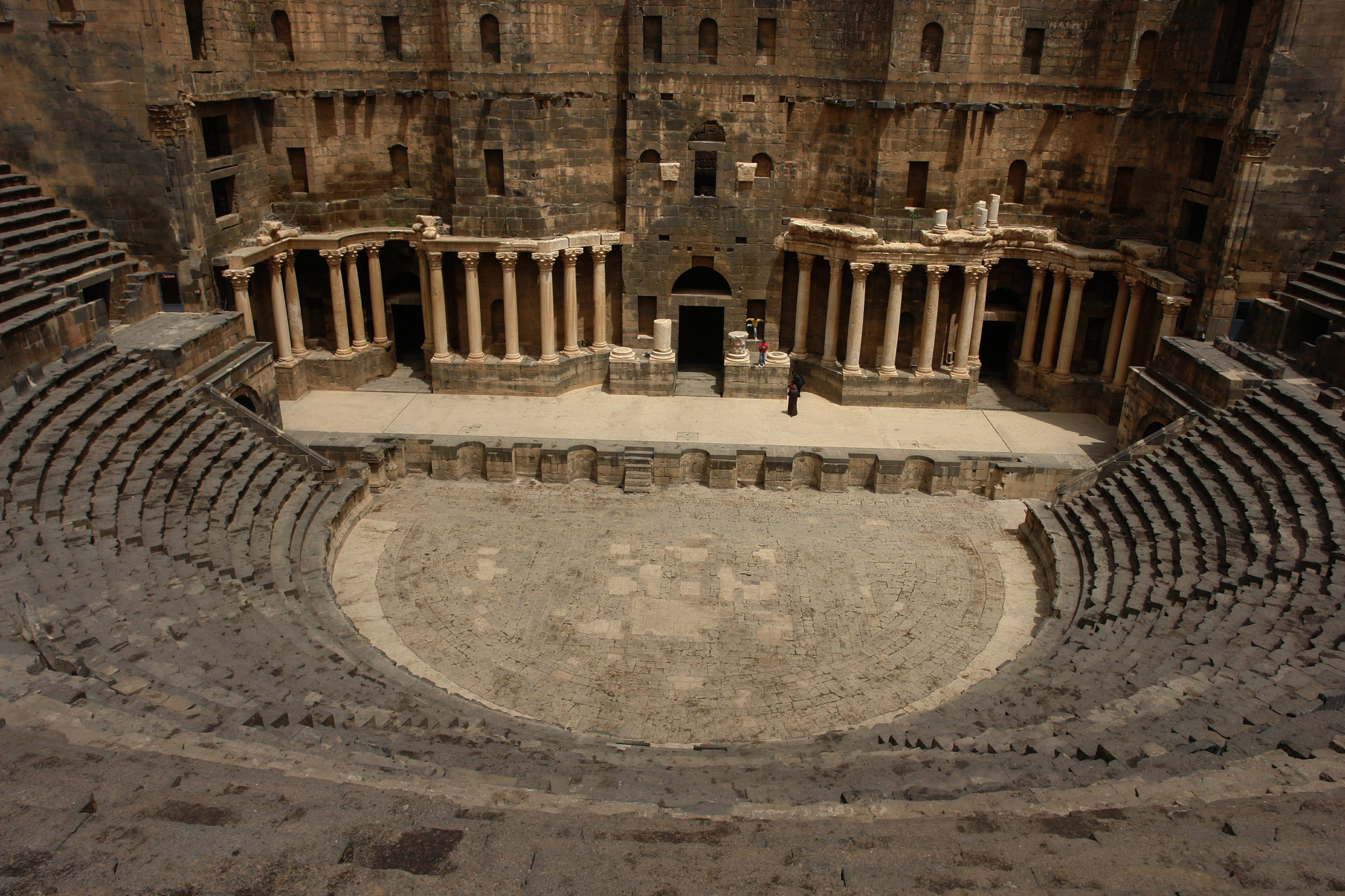 Trajans' Roman theater, Bosra, SW Syria